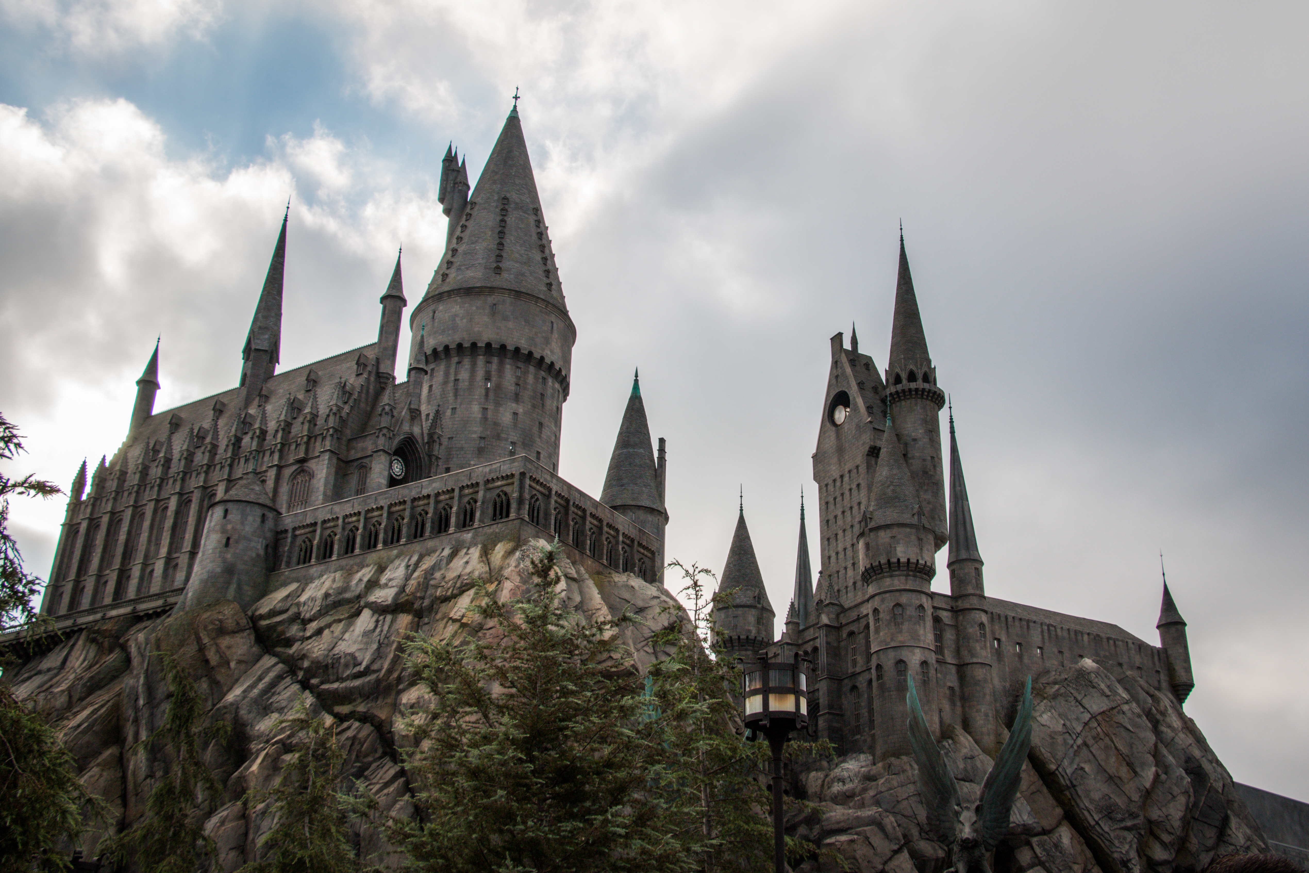 A view of the castle from within the Wizarding World of Harry Potter at Universal Studios Hollywood.